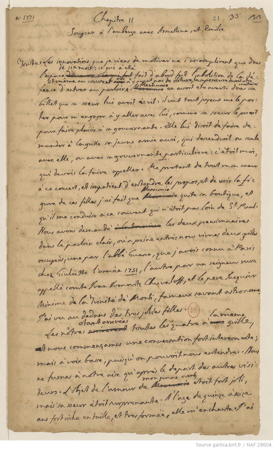 First page of Chapter II, Vol. X (later published as Vol. XII) of Giacomo Casanova's manuscript of Histoire de ma vie. The manuscript was acquired by the Bibliothèque nationale de France in 2010.